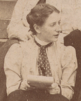 Martha Tracy, medical student (detail from group photograph with other members of Woman's Medical College of Pennsylvania, Class of 1903). Tracy later served as Dean of the College from 1917 to 1940.